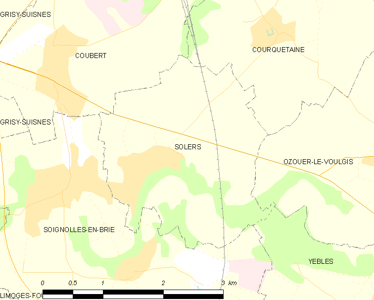 Map of French municipality Solers